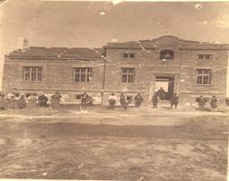 Petar Parchevich Hospital, General Nikolaevo, Plovdiv Province